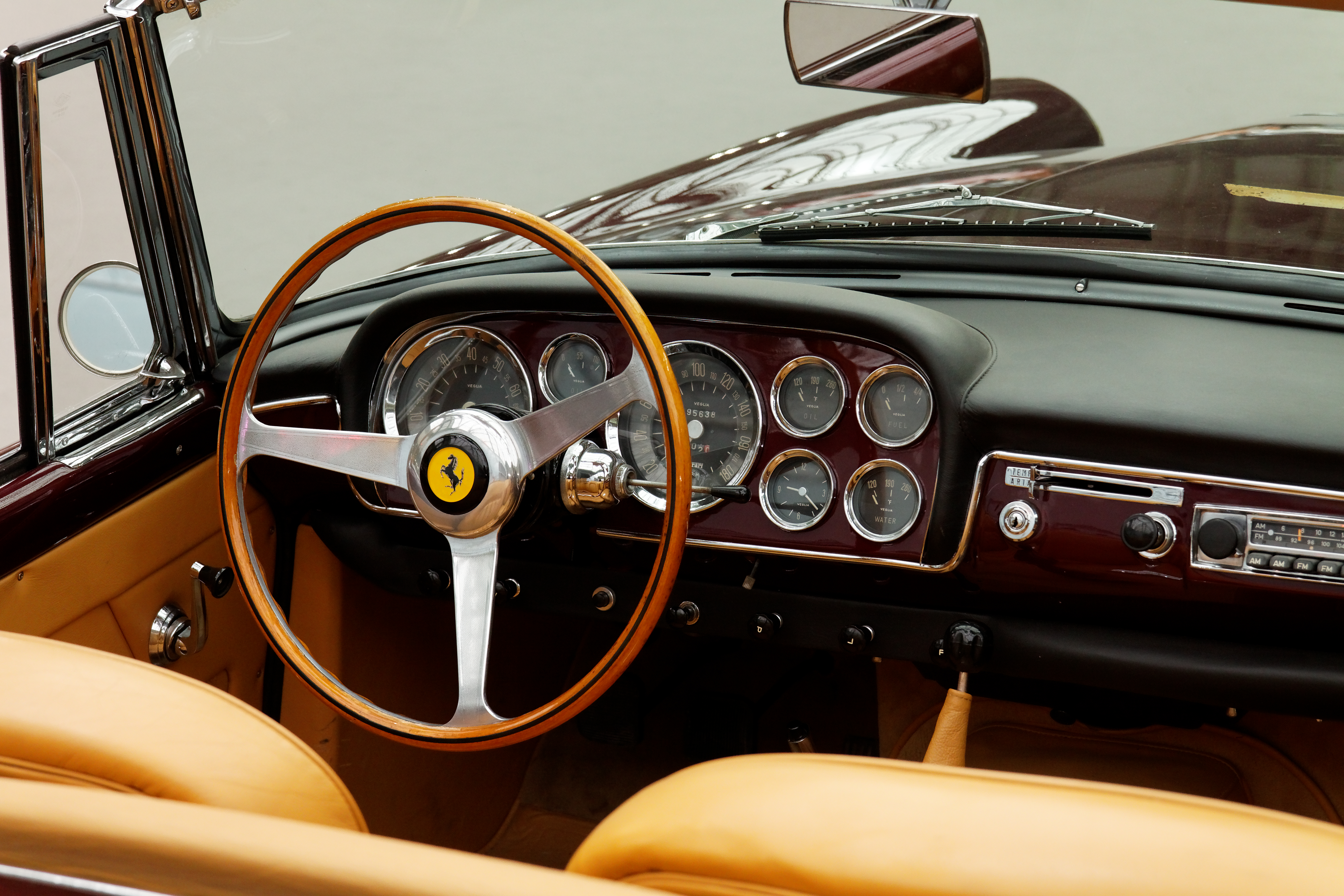 The making of this document was supported by Wikimédia France. (Submit your project!)